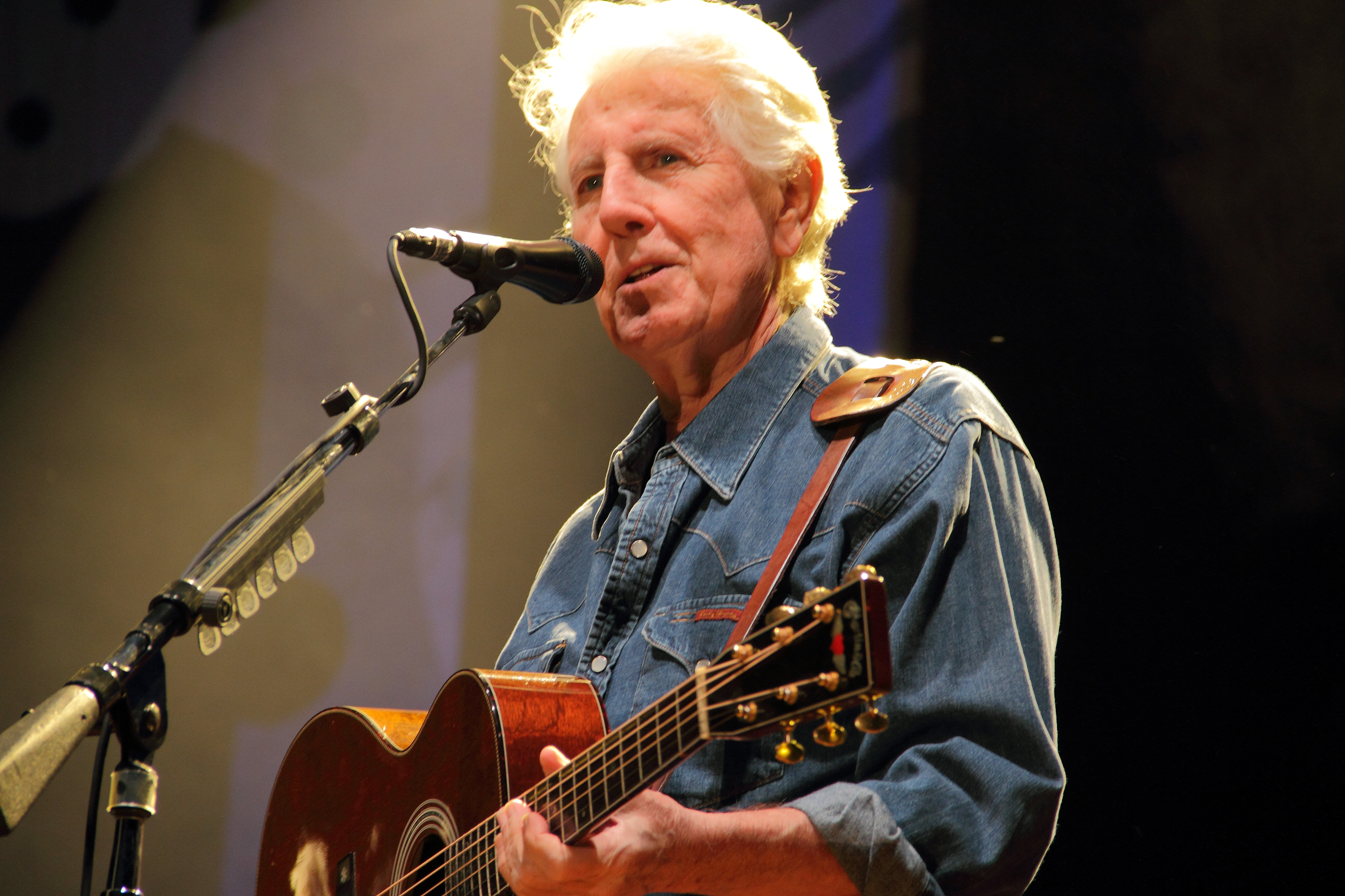 Graham Nash with Shayne Fontayne and Todd Caldwell at Rudolstadt-Festival 2018.